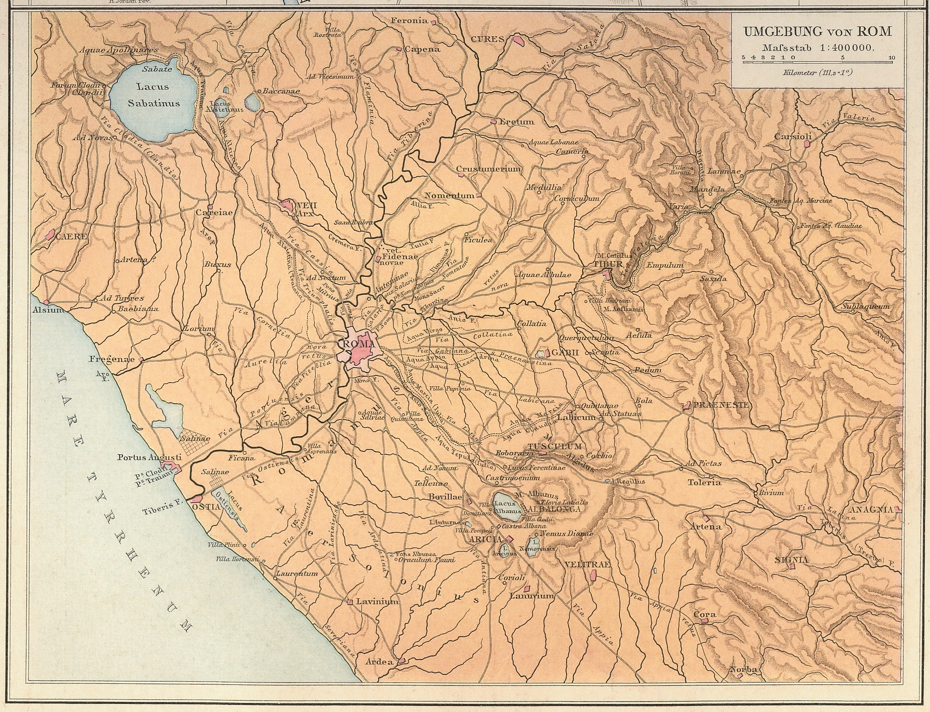 Surroundings of Rome in Antiquity